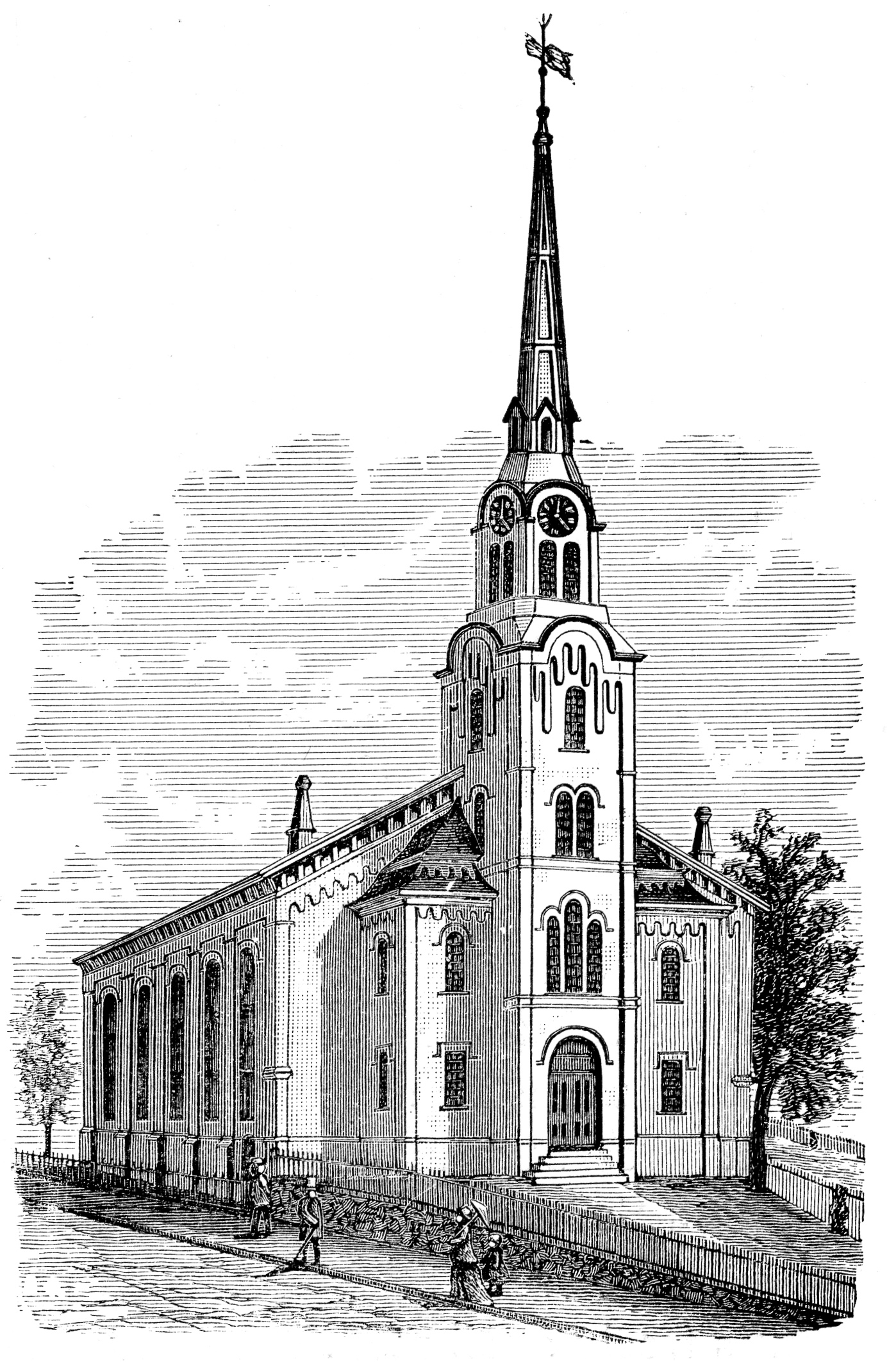 Pawtucket Congregational Church, 1886 engraving from "The Providence Plantations for 250 Years" (1886), p. 381.